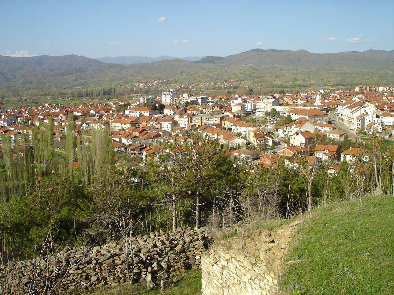 town of Vinica, Macedonia